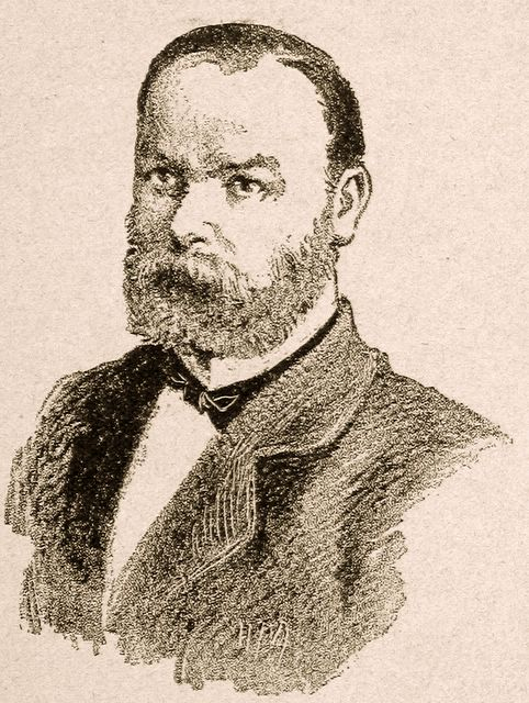 Carl Koldewey, German polar explorer